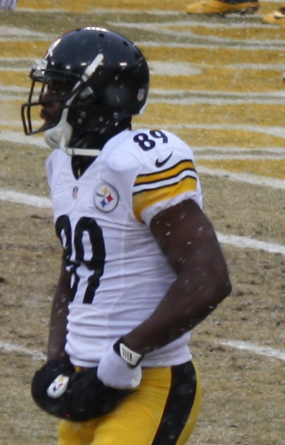 Pittsburgh Steelers player Jerricho Cotchery during warmups.